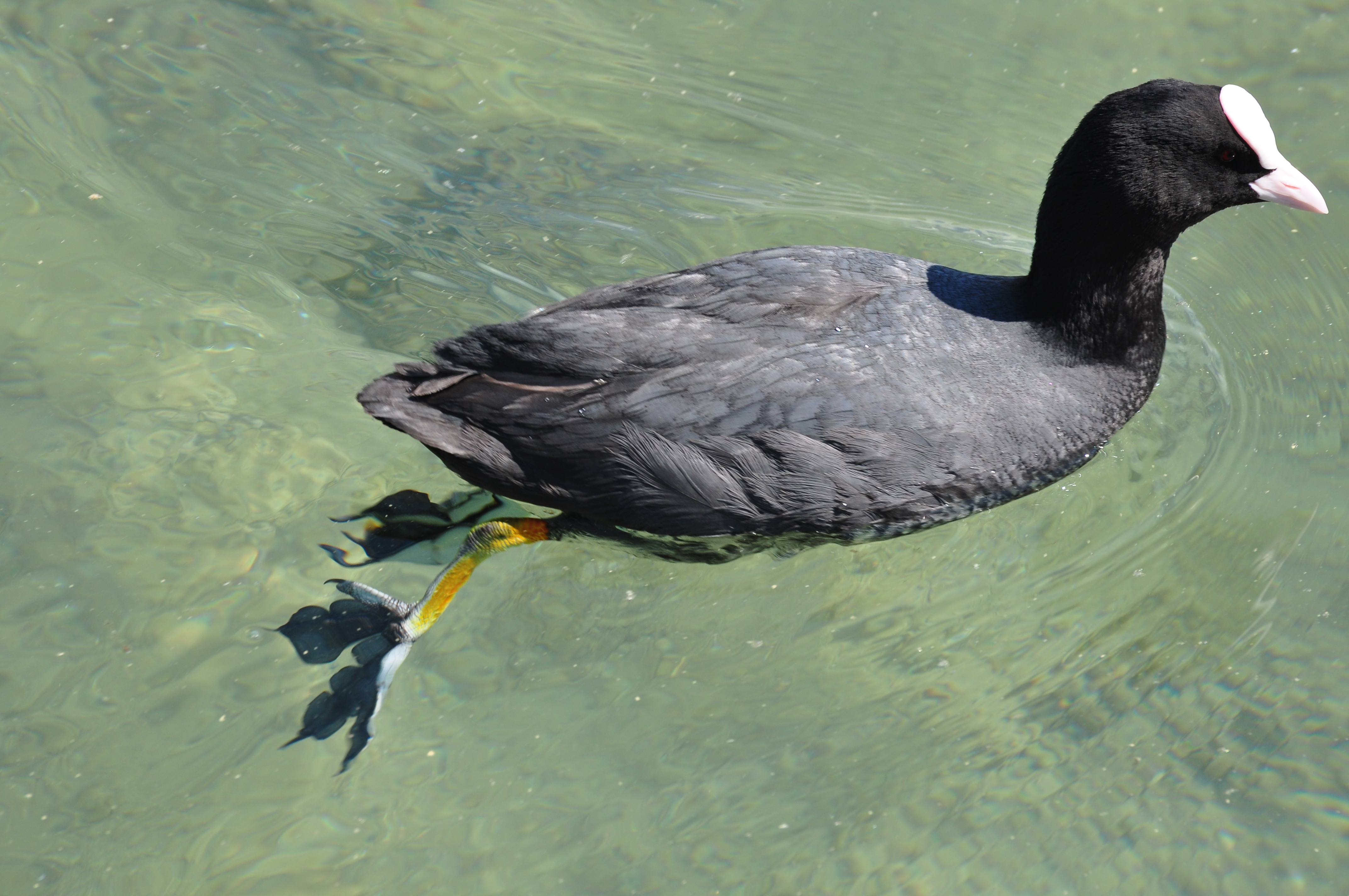 Fulica atra at Holzbrücke (wooden bridge) between Rapperswil (Switzerland) and Hurden, crossing Obersee (upper Lake Zurich).